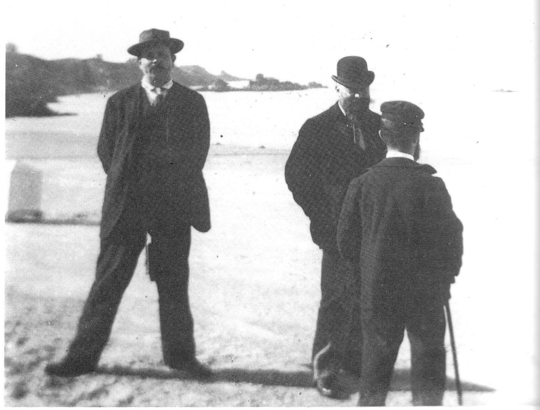 Maxime Dethomas, Thadée Natanson and H.T. Lautrec c.1895-6